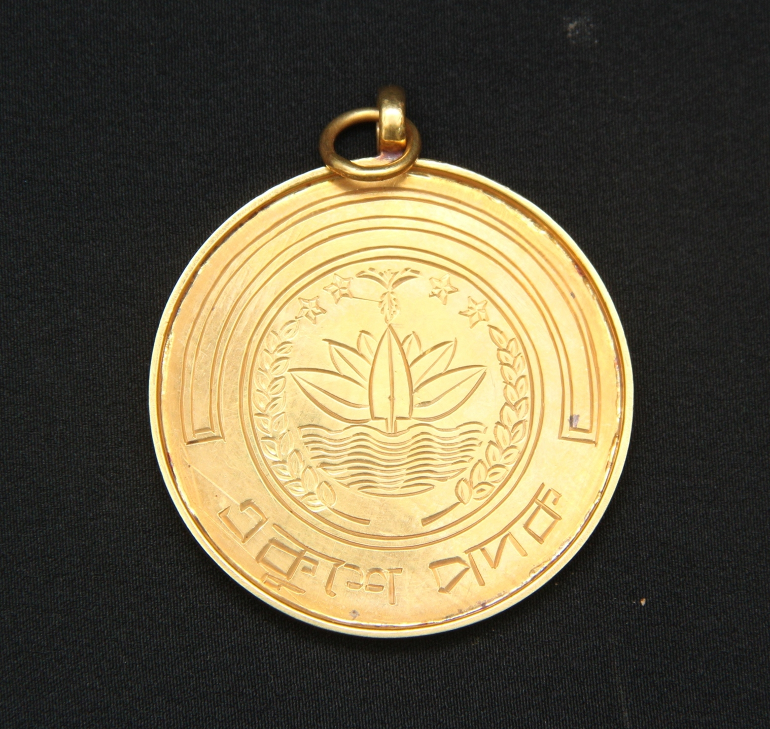 A National Medal of Bangladesh, given by the Government of Bangladesh every year for outstanding to contribution to literature and culture.